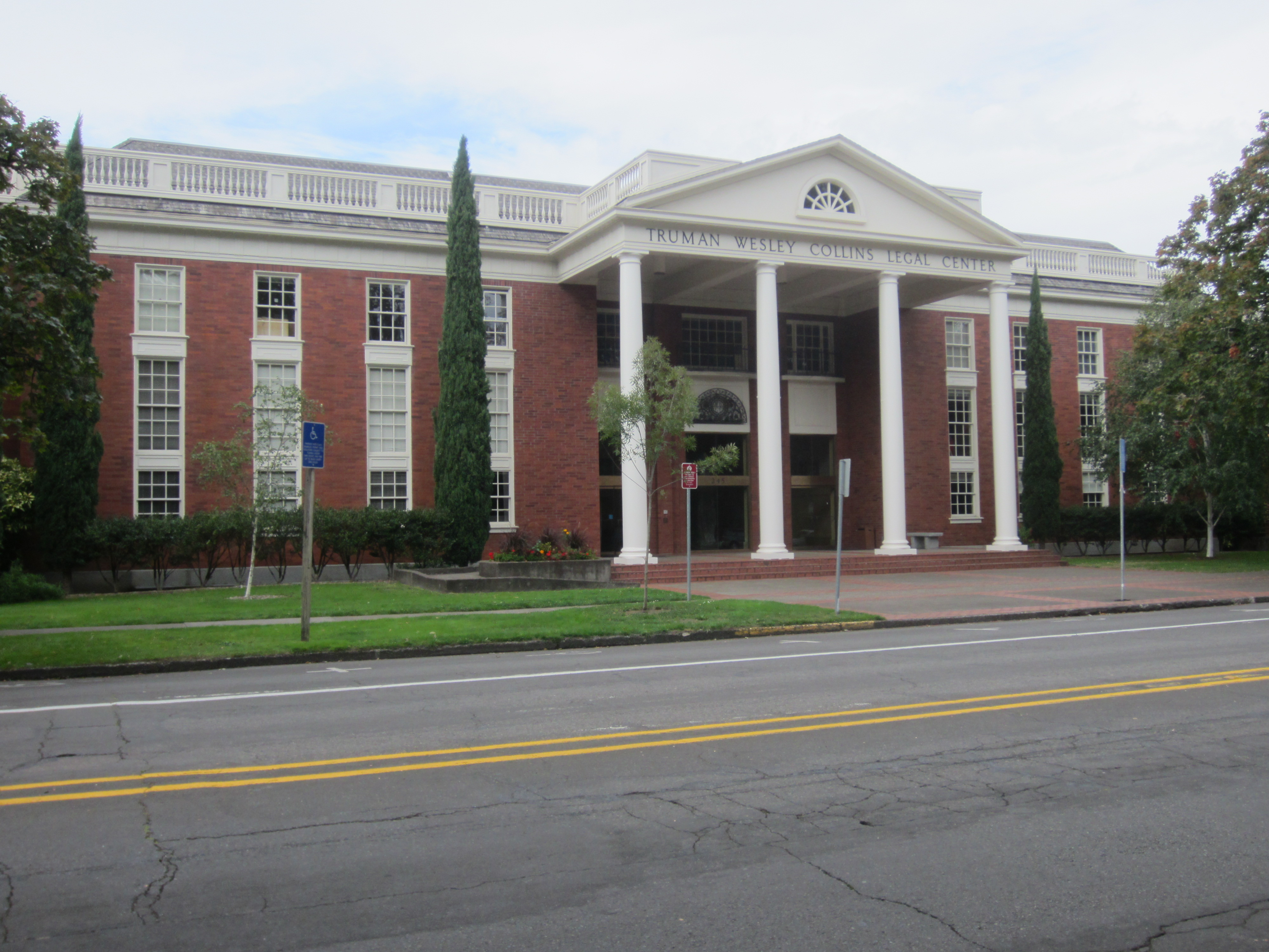 Salem, Oregon (2018)